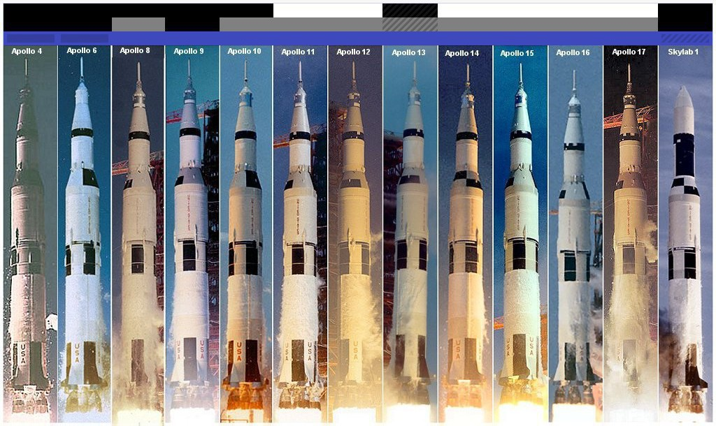 This is a picture of all Saturn V launches - created by Reubenbarton using Paint Shop Pro. The collage has been extended by Tdadamemd using Gimp with color coded bars at the top to indicate the destination of each mission: Earth Orbit = Blue Lunar Orbit = Grey Lunar Landing = White Notes: Apollo 4, 6 and Skylab were launched with no crew, with Skylab later being docked with by crews. Apollo 13 was planned as a landing mission, however it did not achieve lunar orbit, making only a circumlunar pass. The individual launch images came from the NASA Image eXchange (NIX) web site: downloaded from en.wikipedia, original uploader was Reubenbarton After Gus Grissom on the first piloted Gemini mission named his spacecraft "Molly Brown" (a sarcastic reference to The Unsinkable Molly Brown, after his Mercury spacecraft had sunk) NASA put a stop to the convention of astronauts giving their spaceships nicknames. The callsigns used were strictly the mission number. And this continued into the Apollo program through the first two piloted missions. However, the need to have separate callsigns arose for the situation where two spacecraft in the same mission would be flying independently. So to coordinate communications between the Command Module and Lunar Module, the spacecraft naming tradition was restarted beginning with Apollo 9: Spacecraft Nicknames Mission CSM/CM LM Apollo 8 (None) (N/A) Apollo 9 Gumdrop Spider Apollo 10 Charlie Brown Snoopy Apollo 11 Columbia Eagle Apollo 12 Yankee Clipper Intrepid Apollo 13 Odyssey Aquarius Apollo 14 Kitty Hawk Antares Apollo 15 Endeavour Falcon Apollo 16 Casper Orion Apollo 17 America Challenger Skylab (N/A) (N/A)